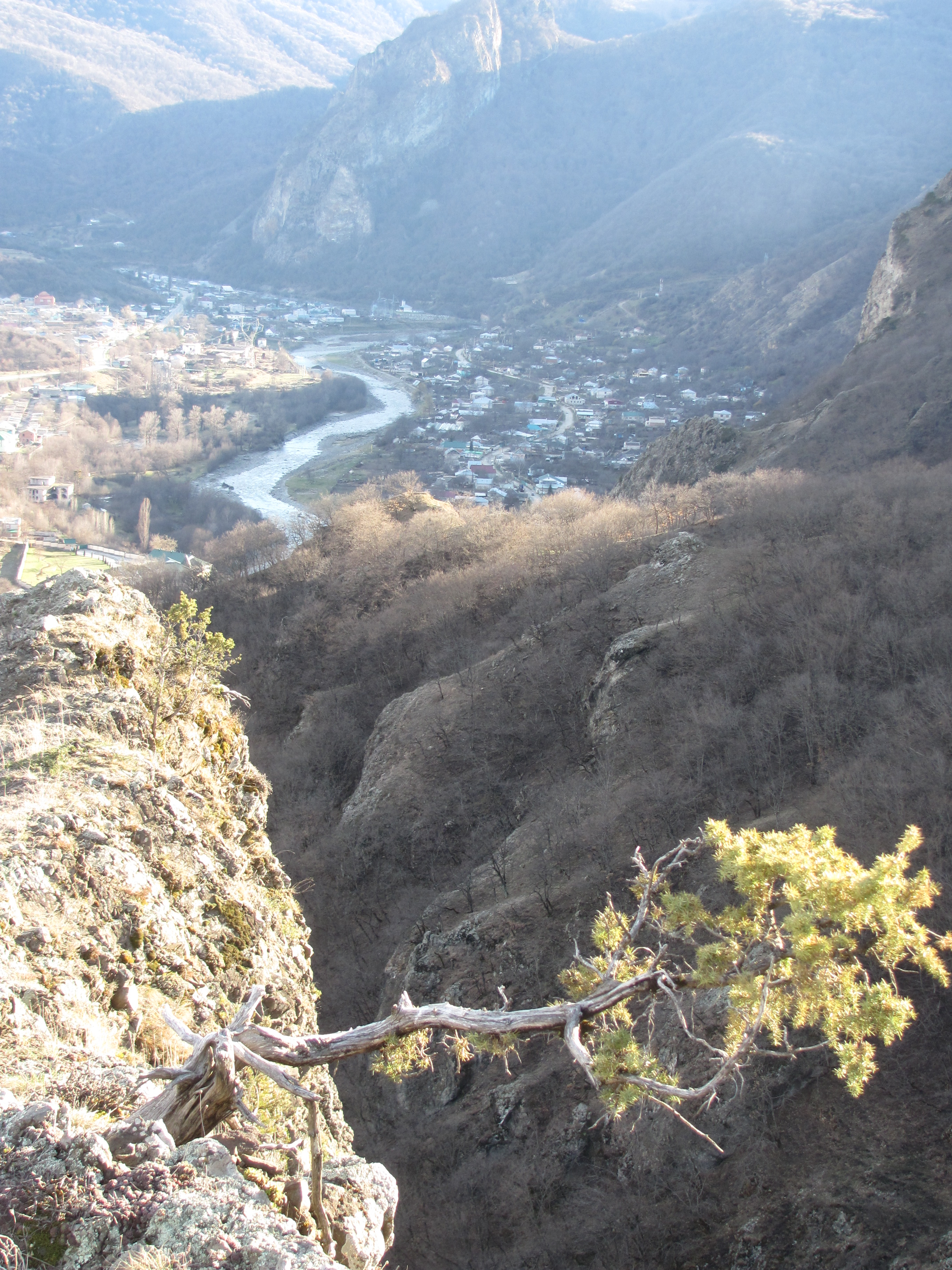 View of the town Karachayevsk, river Teberda and neighbouring mountains